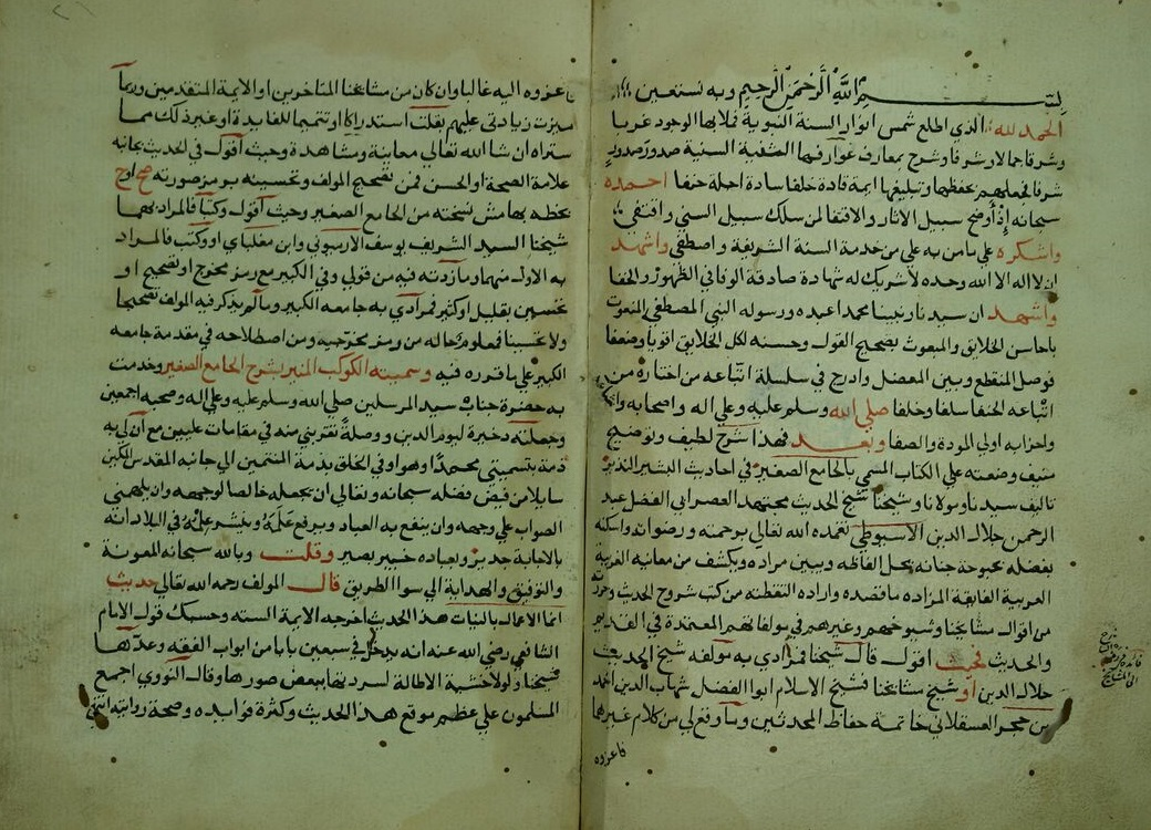 Kawkab al-munir bi sharh al-Jami' as-Saghir - 1586 Arabic manuscript from Egypt. full album in dropbox, Description in Arabic in